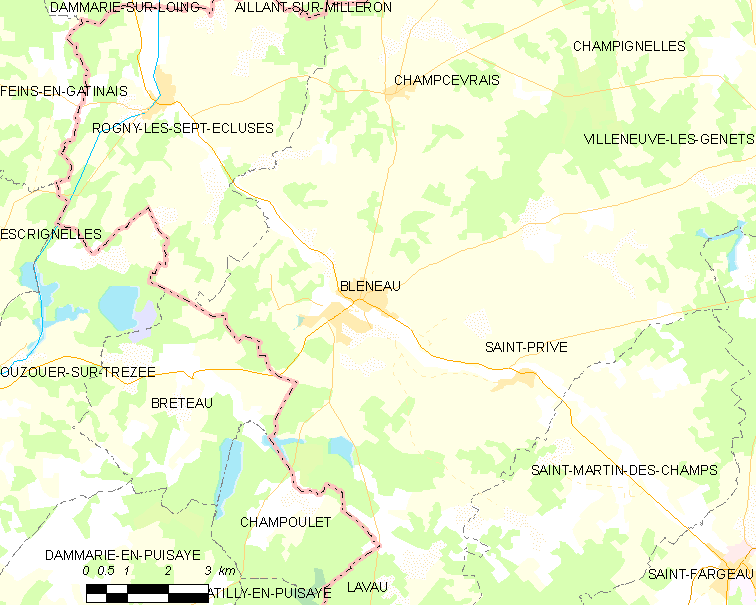 Map of French municipality Bléneau